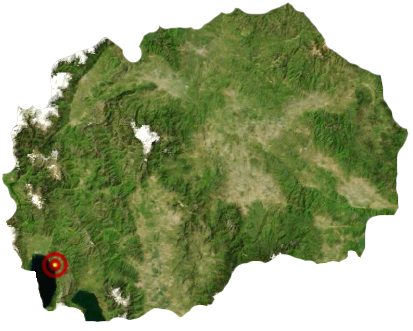 Location of Ohrid city in the Republic of Macedonia